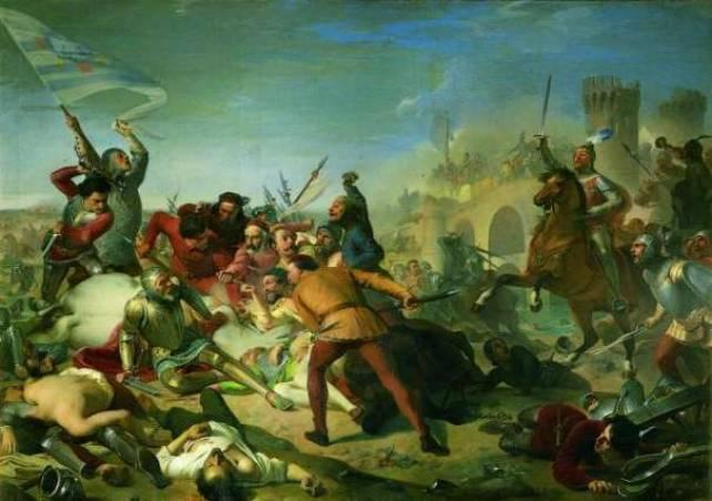 La Disfatta di Ezzelino da Romano/Painting by Adeodato Malatesta, 1856